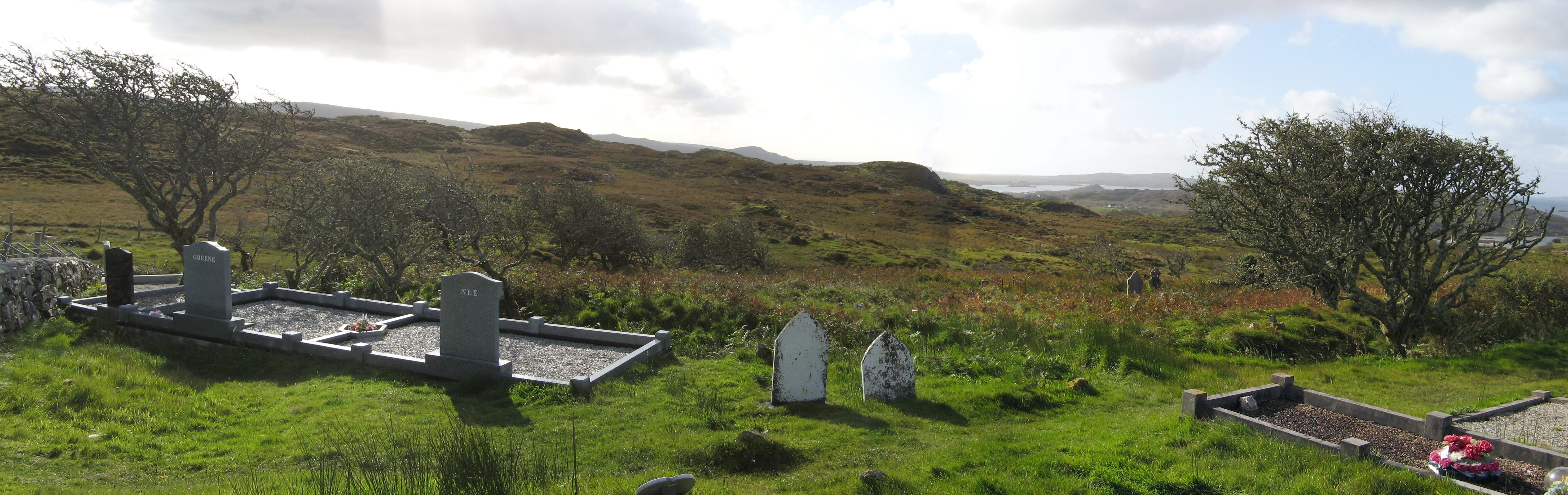 Cashel, County Galway, Ireland: the ring fort remains.